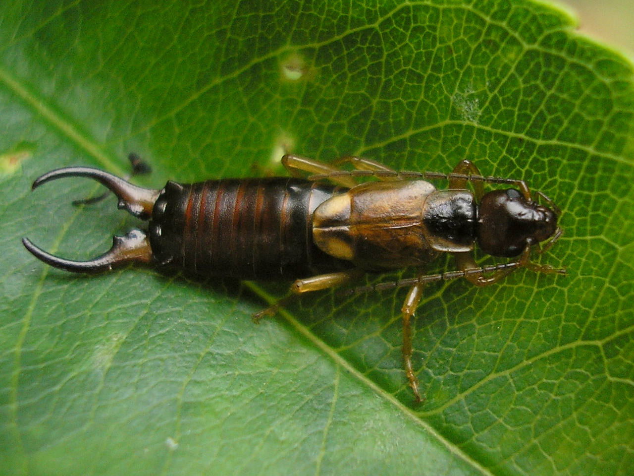 Male Earwig of species Forficula auricularia Location: Hengelo (Overijssel), Netherlands